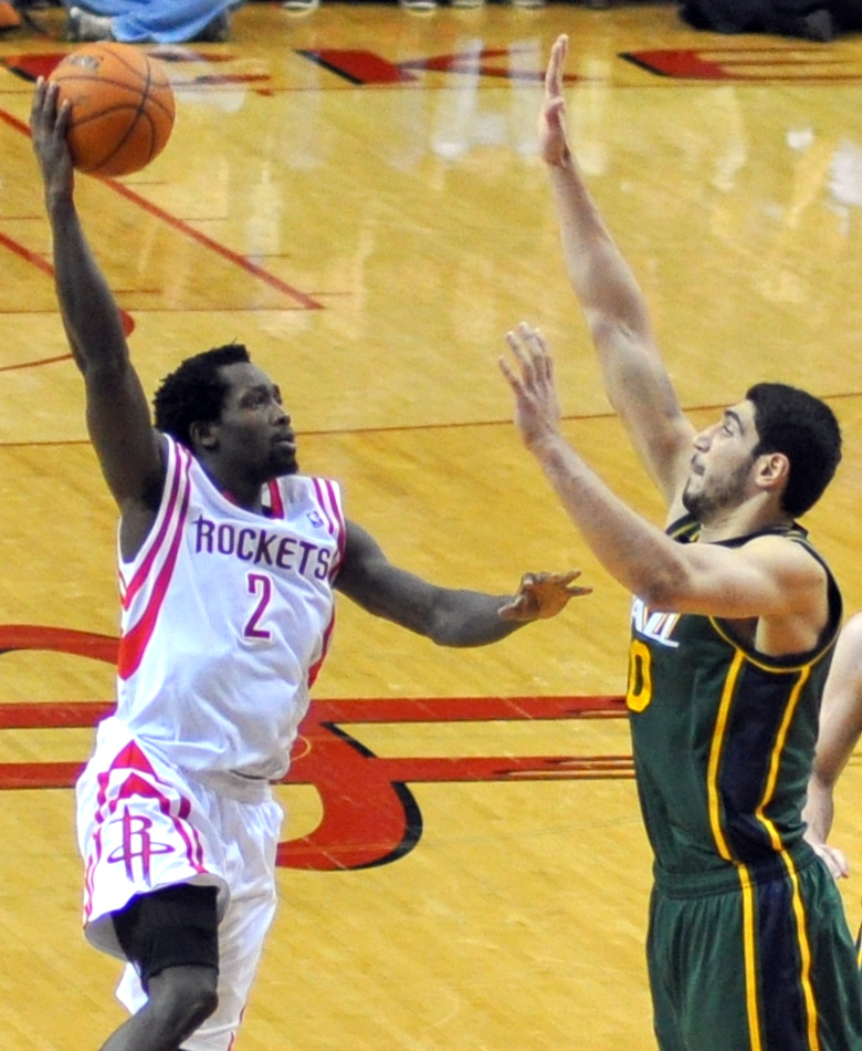 Patrick Beverley of the Houston Rockets takes a shot as Enes Kanter of the Utah Jazz defends during an NBA basketball game on March 17, 2014, at the Toyota Center in Houston, Texas.